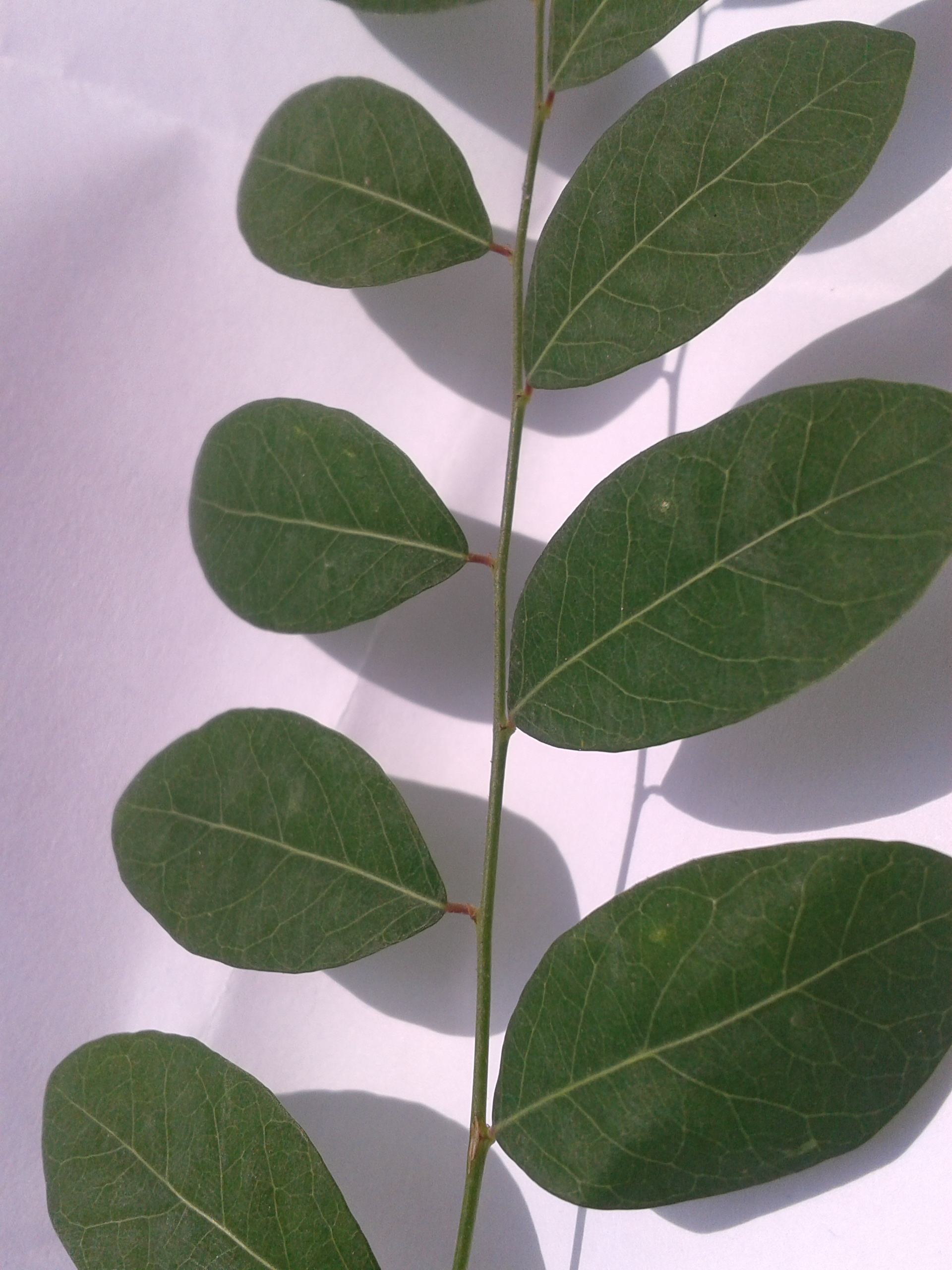 Botanical name : Phyllanthus reticulatus (Black-berried featherfoil). Native to Indian subcontinent etc ., Tamil name : KARU NELLI "black Indian goose berry". In photo - leaves of Phyllanthus reticulatus. Shot in Chennai (Tamilnadu, India) 4.5 kms off sea-shore; Latitude-13°02'20" N ; Longitude- 80°13'43" E ; Elevation from sea level - 6.7 m